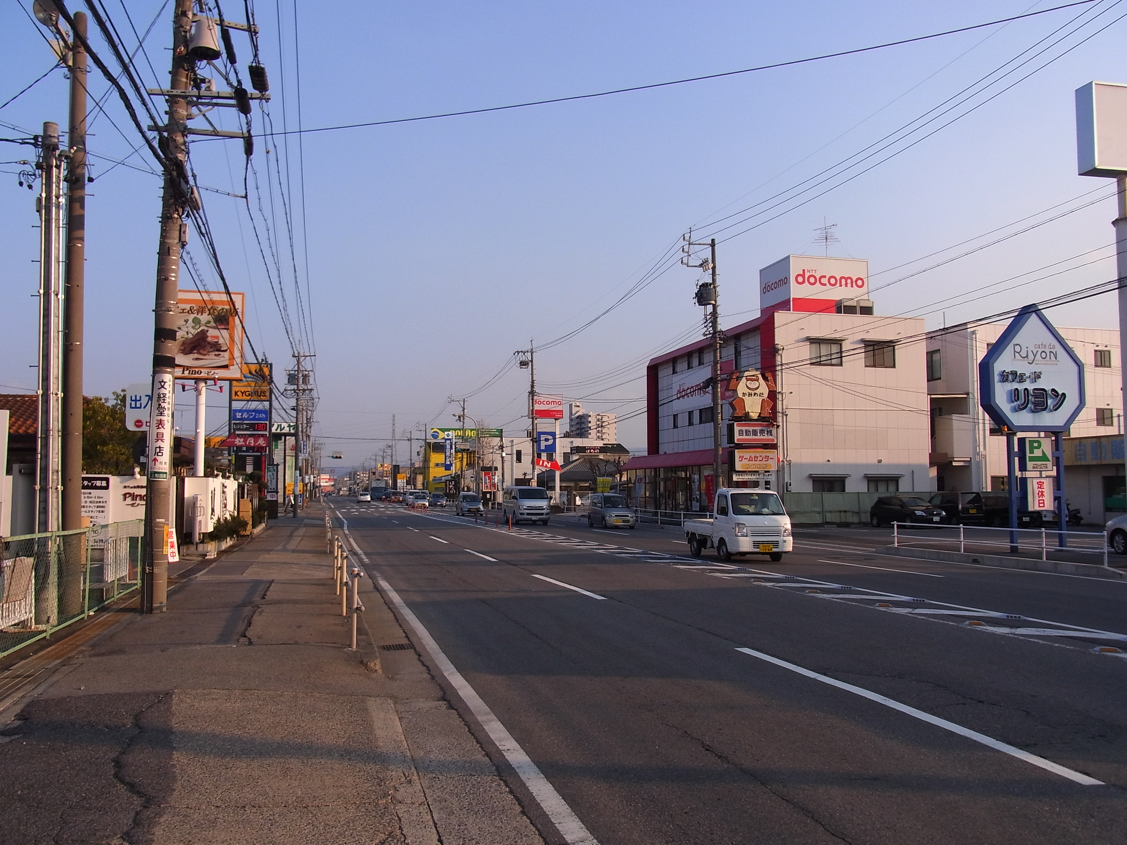 The Aichi Prefectural Road Route 48 in Kamiwada-cho, Okazaki City